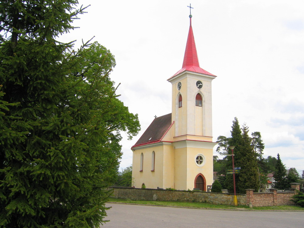 Church of the Trnsfiguration in Velichovky, Náchod District, Czech Republic.